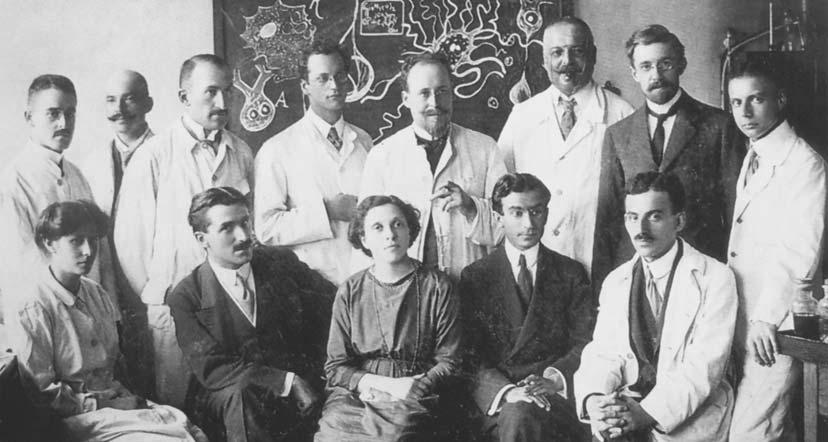 Front row, from left: Mrs. Adele Grombach, Ugo Cerletti, unknown, Francesco Bonfiglio, Gaetano Perusini. Top row from left: Fritz Lotmar, unknown, Stefan Rosental, Allers (?), unknown, Alois Alzheimer, Nicolás Achúcarro, Friedrich Heinrich Lewy.